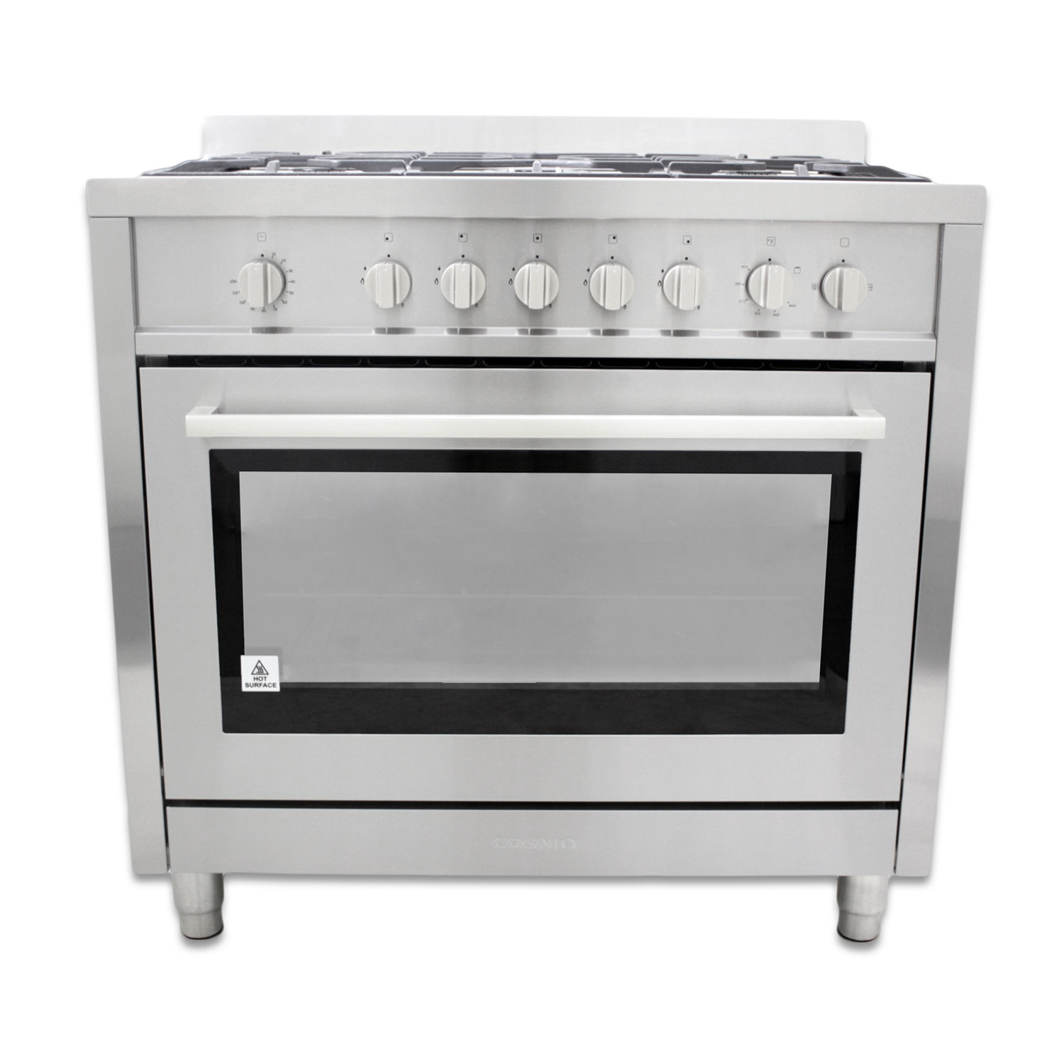 A Cosmo Appliances brand modern stainless steel gas range with an oven and 5 burners.